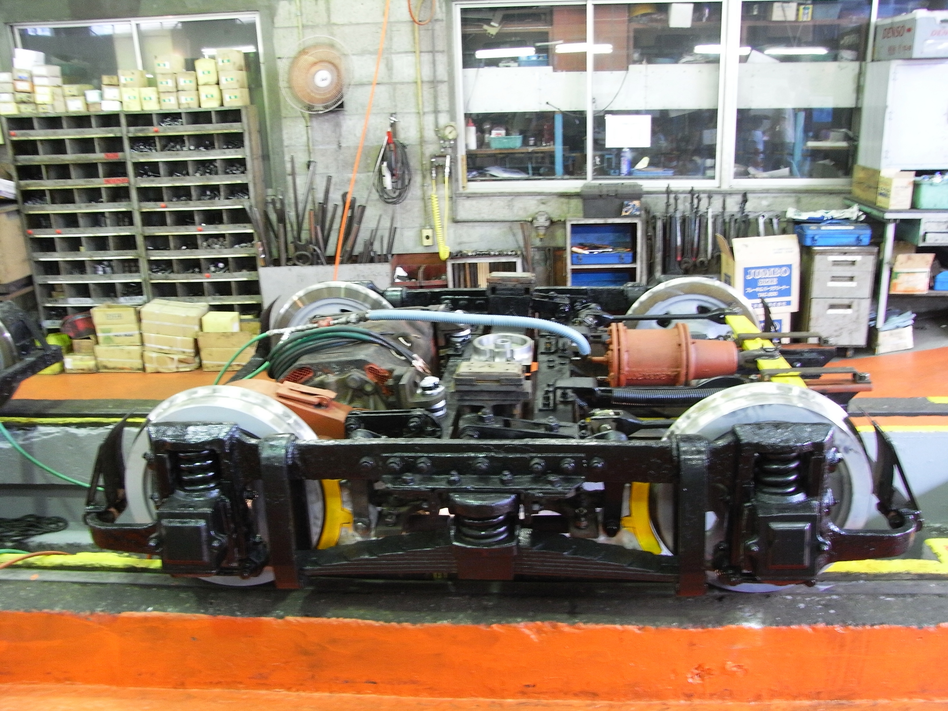 Brill 77E bogey for Hiroden 900 series tramcar